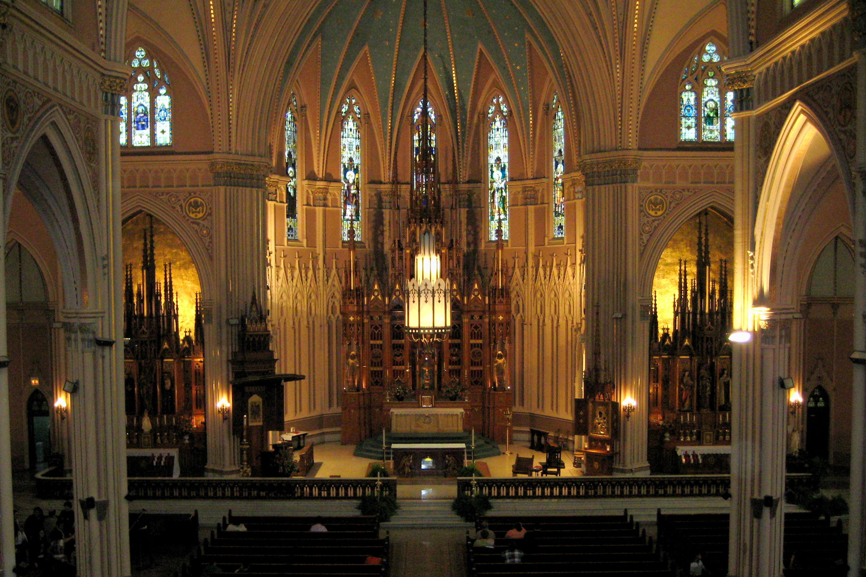 St. Michael the Archangel, on the southside of Chicago.